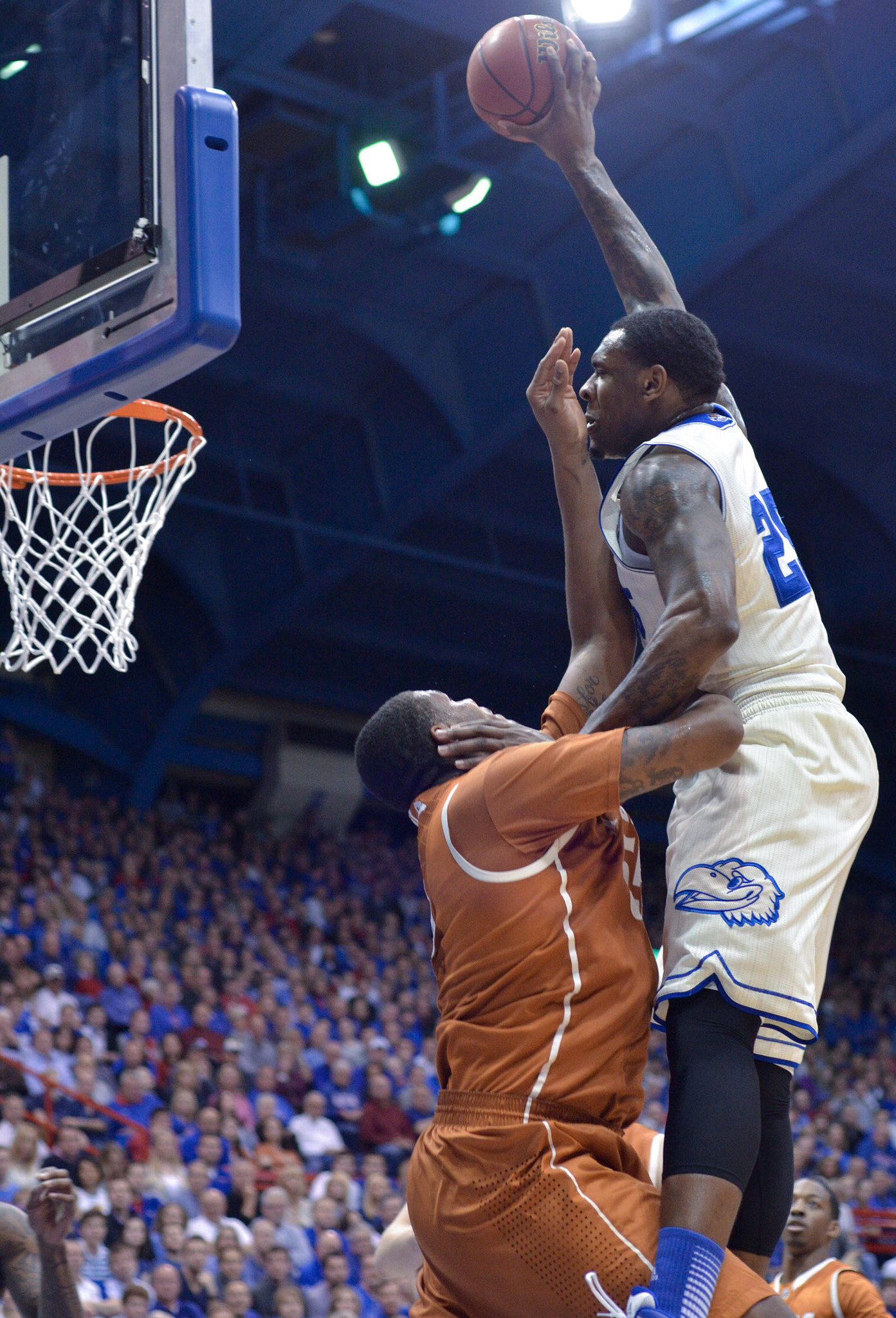 500px provided description: Senior forward Tarik Black posterizes a Texas defender. Black scored eight points off of field goals in the Feb.22 Kansas defeat of Texas 85-54. [#lawrence ,#texas ,#college ,#kansas ,#basketball ,#ncaa ,#allen fieldhouse ,#Tarik Black]